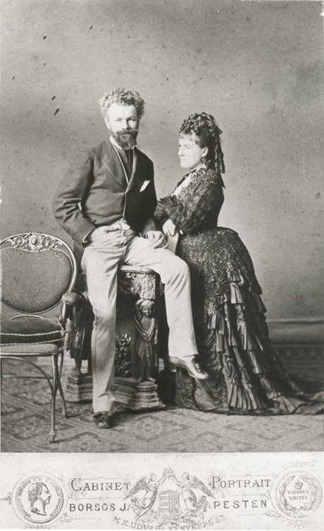 Mihály Munkácsy and his wife in 1874. Photograph by József Borsos Current location: Mihály Munkácsy Museum LocationBékéscsaba, HungaryCoordinates46° 40′ 54.84″ N, 21° 05′ 59.64″ E Established1914Web page control : Q1179843 VIAF: 133454146 ISNI: 0000 0001 0662 6256 SUDOC: 030724066 BNF: 12208268w institution QS:P195,Q1179843 Dimensions: Height: 138 mm (5.43 in); Width: 100 mm (3.93 in) dimensions QS:P2048,138U174789;P2049,100U174789